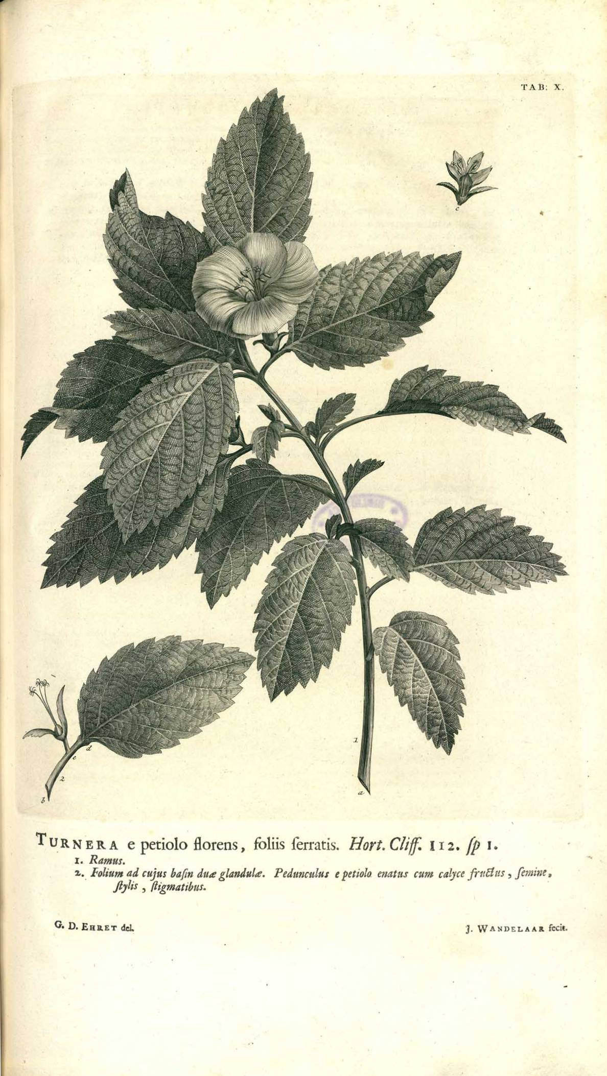 Linnaeus, C. (1738), Hortus Cliffortianus, plate X, Turnera, drawn by Georg Dionysius Ehret and engraved by Jan Wandelaar.